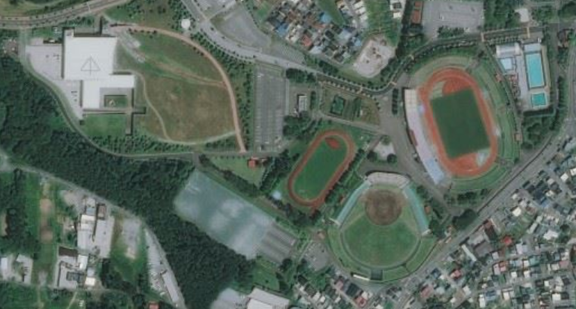 Satellite view